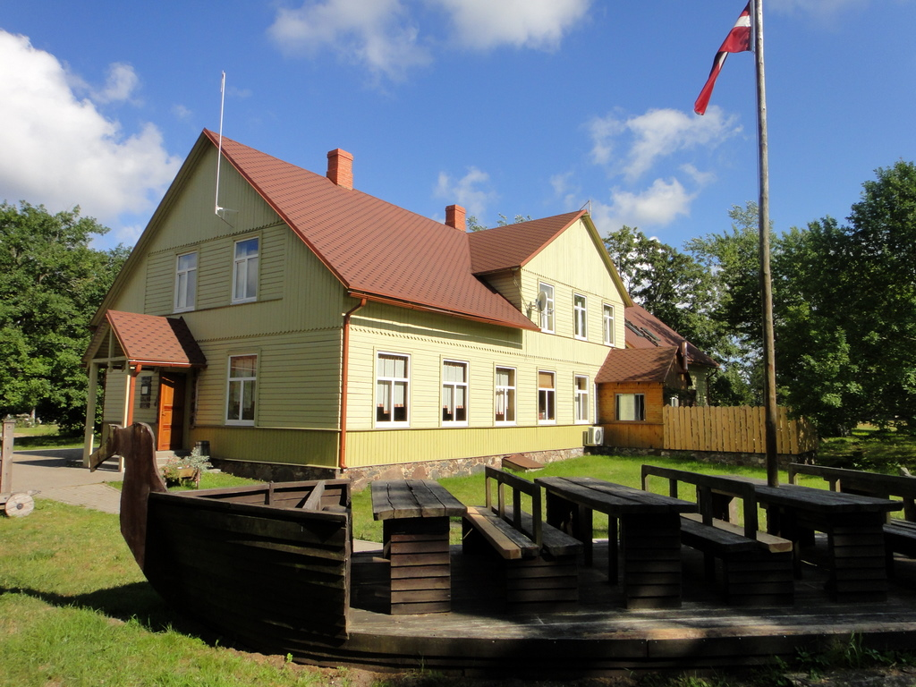 Jūrkalne former schoolhouse